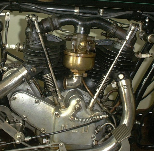 Motor from an NSU motorcycle